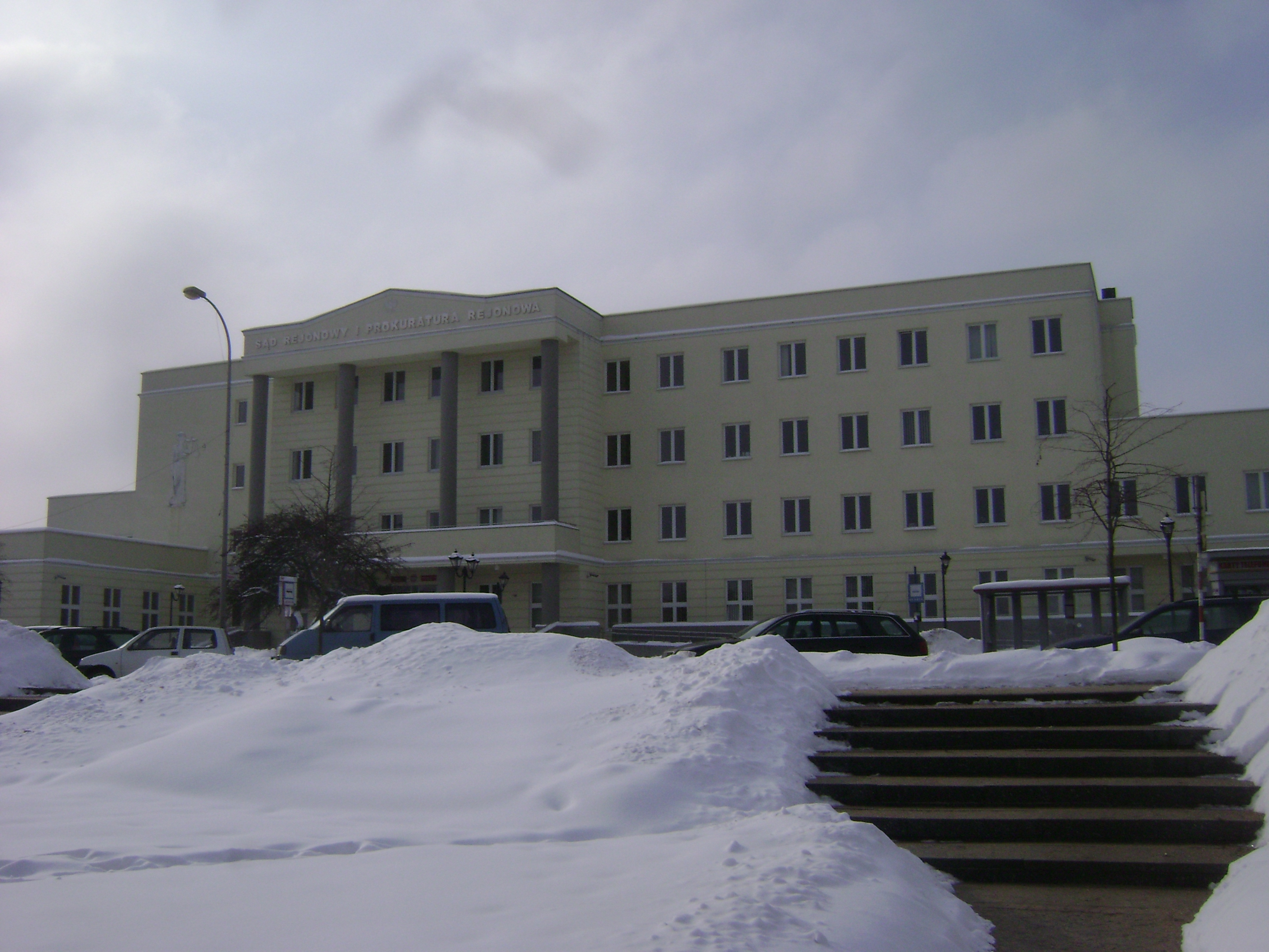 Poland. Piaseczno